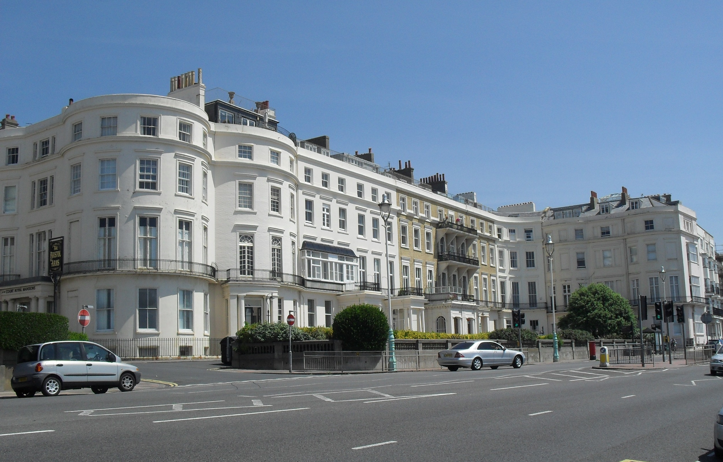 1-9 Eastern Terrace, Kemptown, City of Brighton and Hove, East Sussex. A curved terrace of seafront houses, built in 1828. Listed at Grade II by English Heritage (IoE Code 480687)